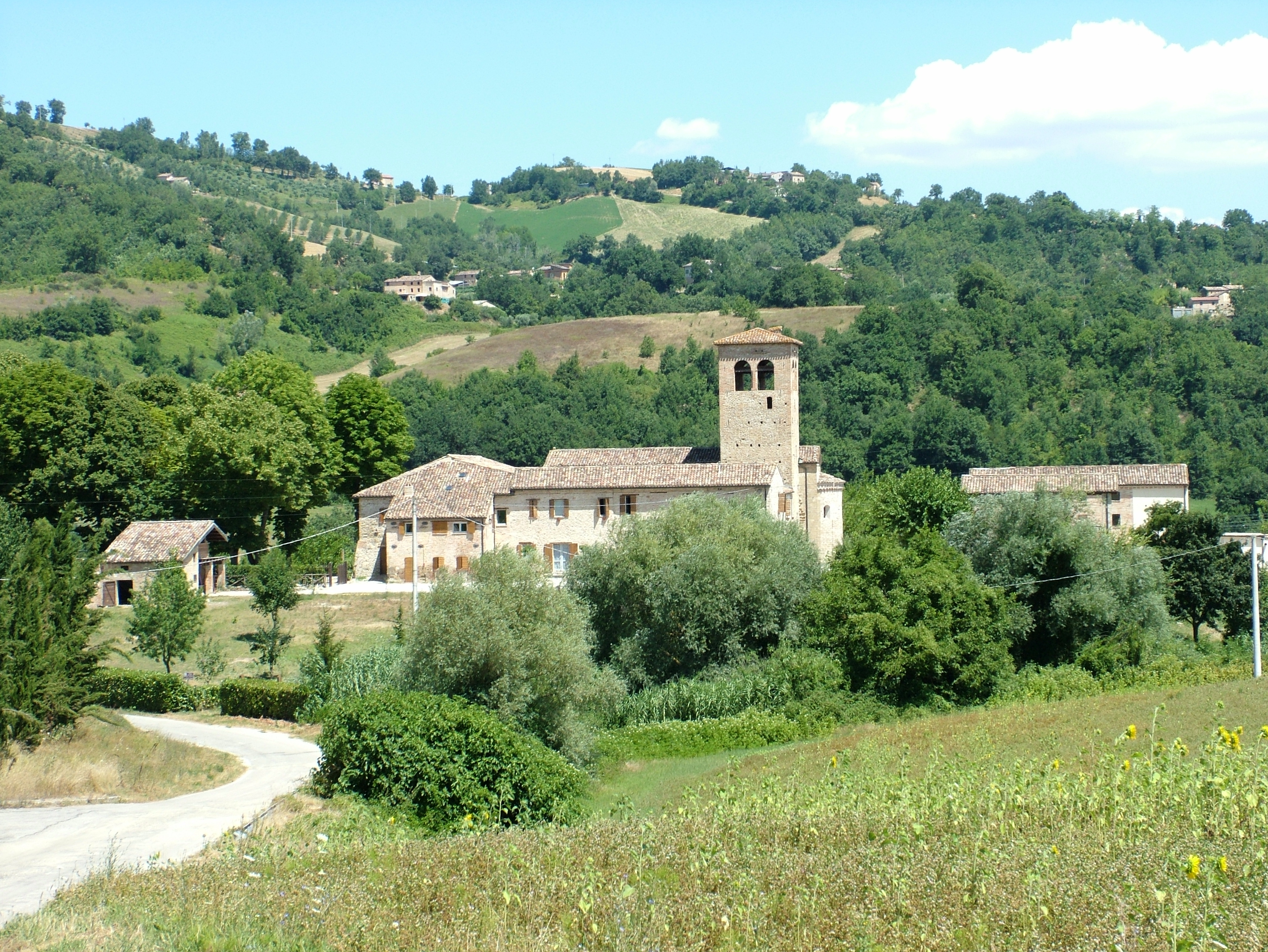 Abbey of the Saints Ruffino and Vitale Amandola (FM)